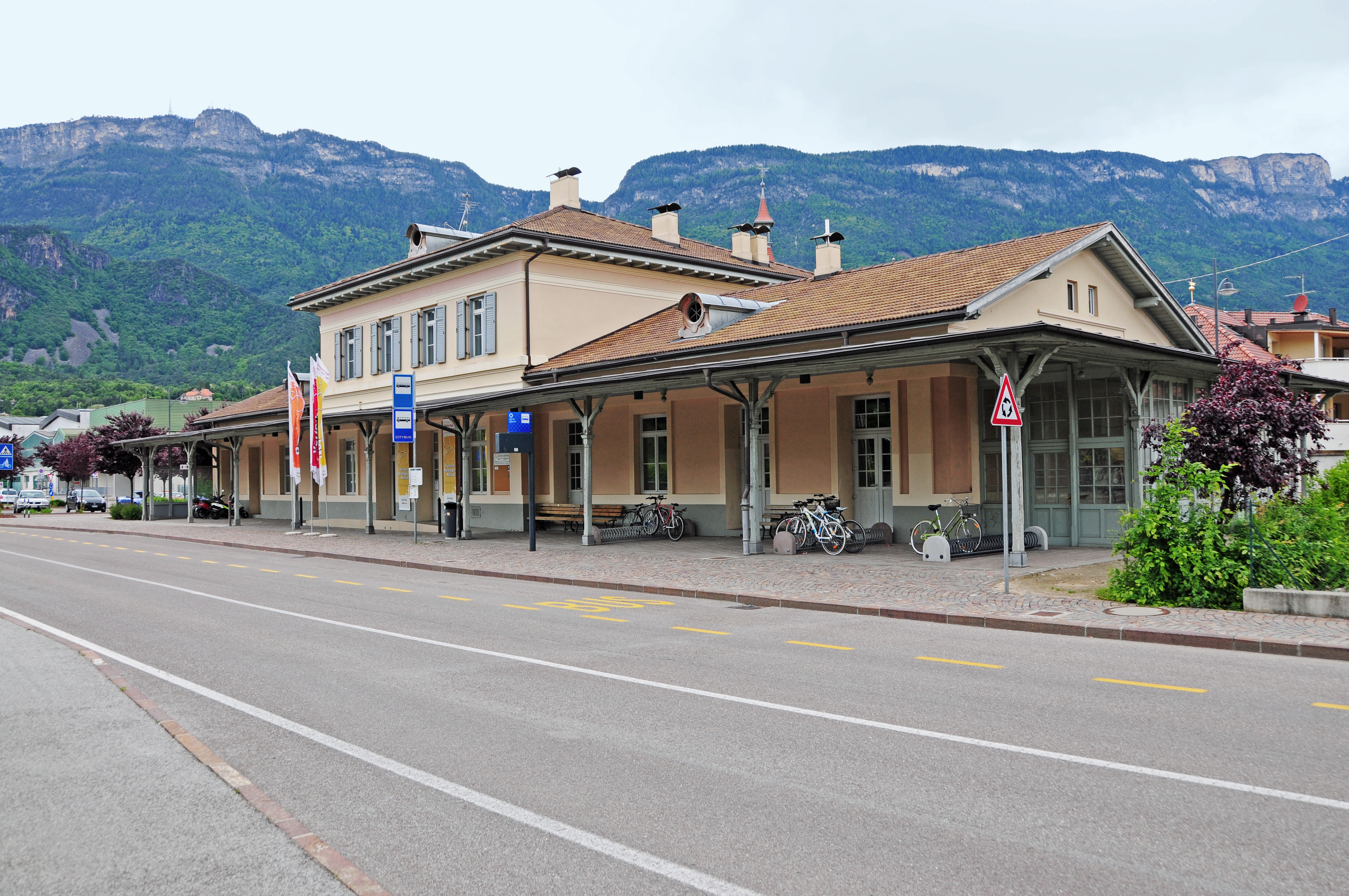 Eppan-Girlan (Appiano-Cornaiano) station of the Überetscher Bahn railway